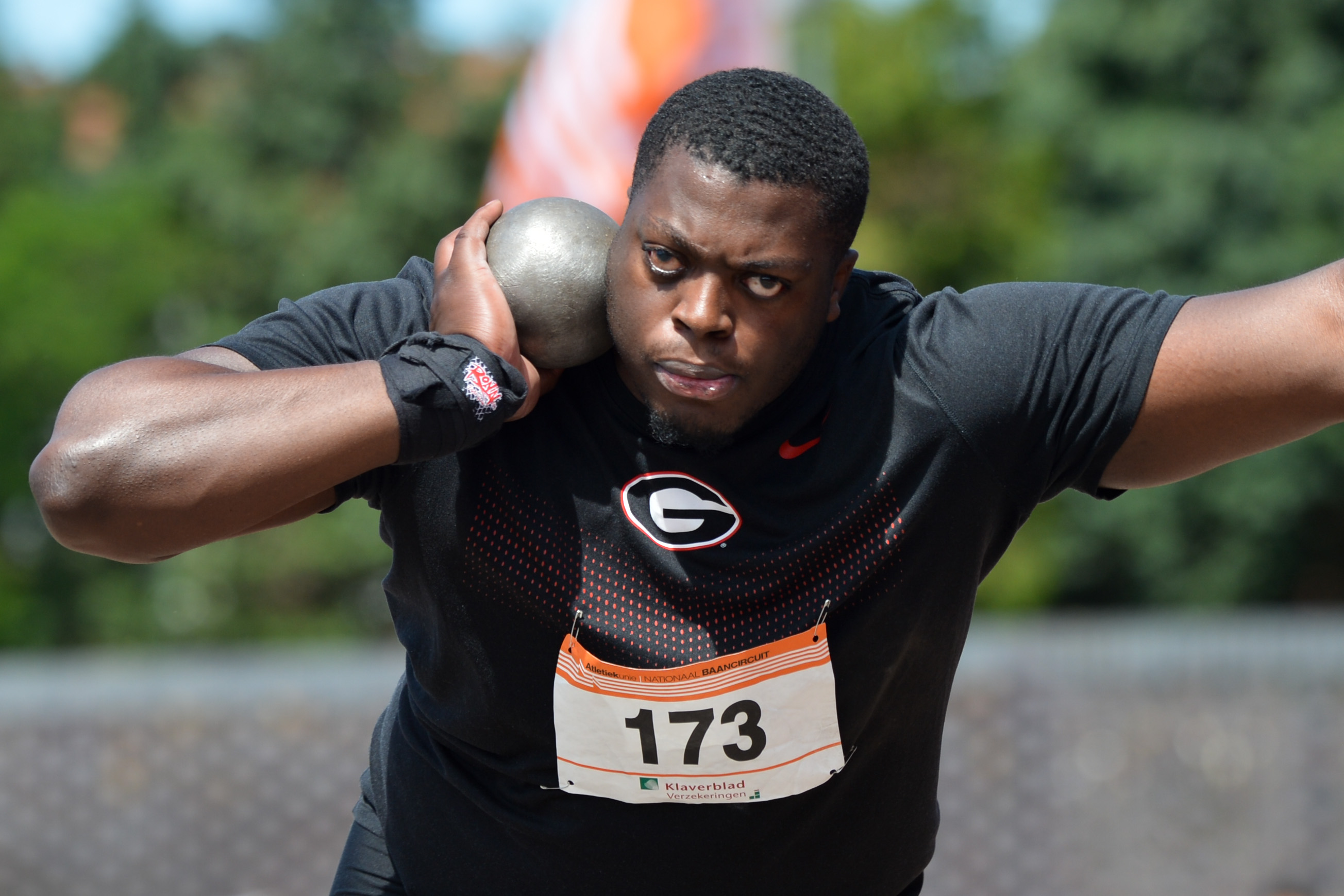 Denzel Comenentia at the 2017 Arena Games in The Netherlands.